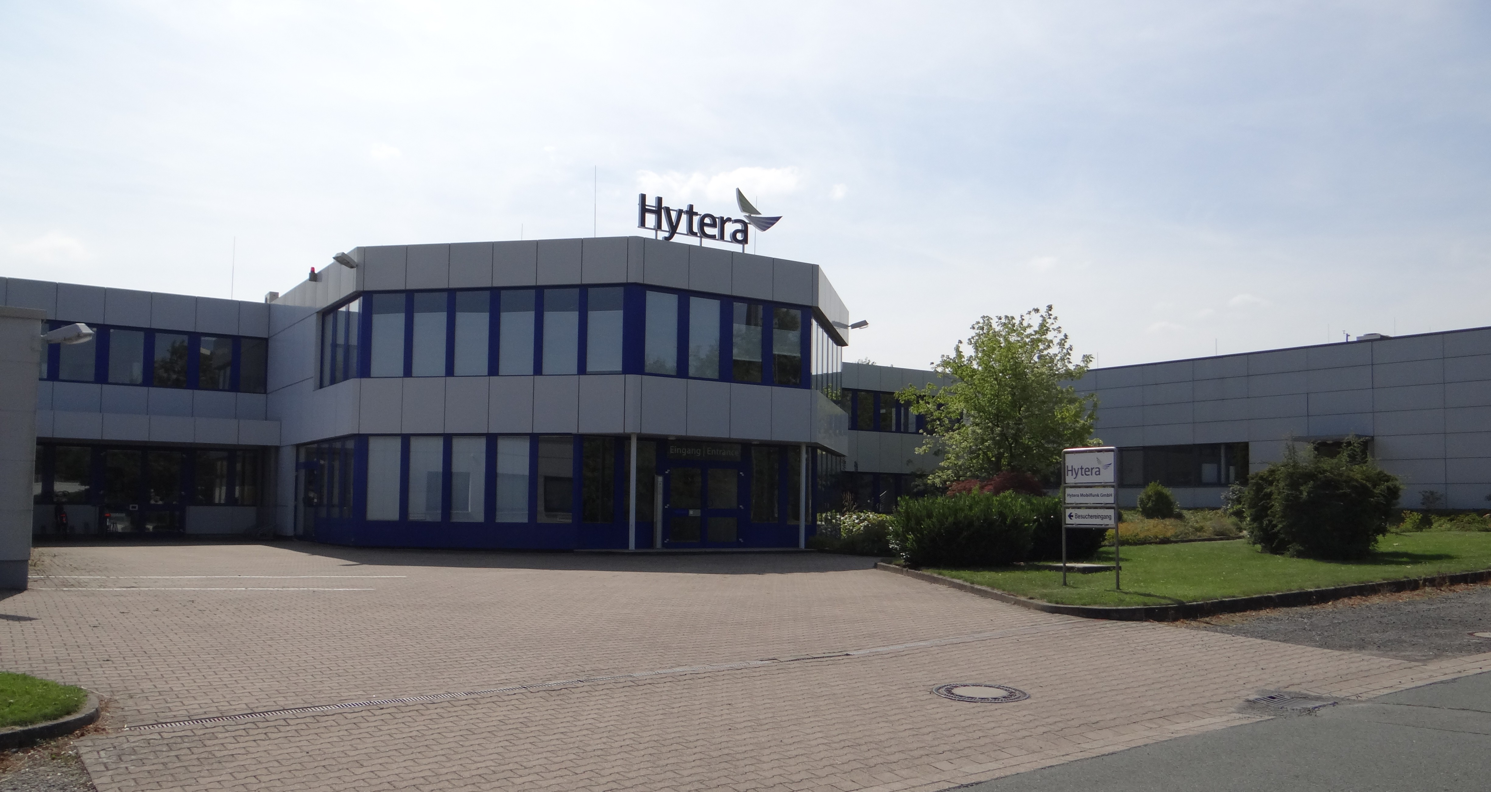 Hytera Office building in Eimbeckhausen near Bad Münder, Germany.